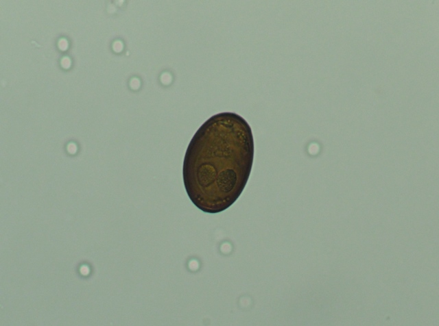 Dicrocoelium dendriticum - egg